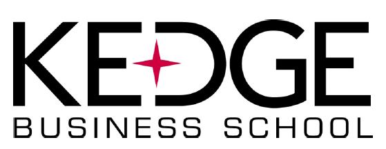 Logo Kedge Bs